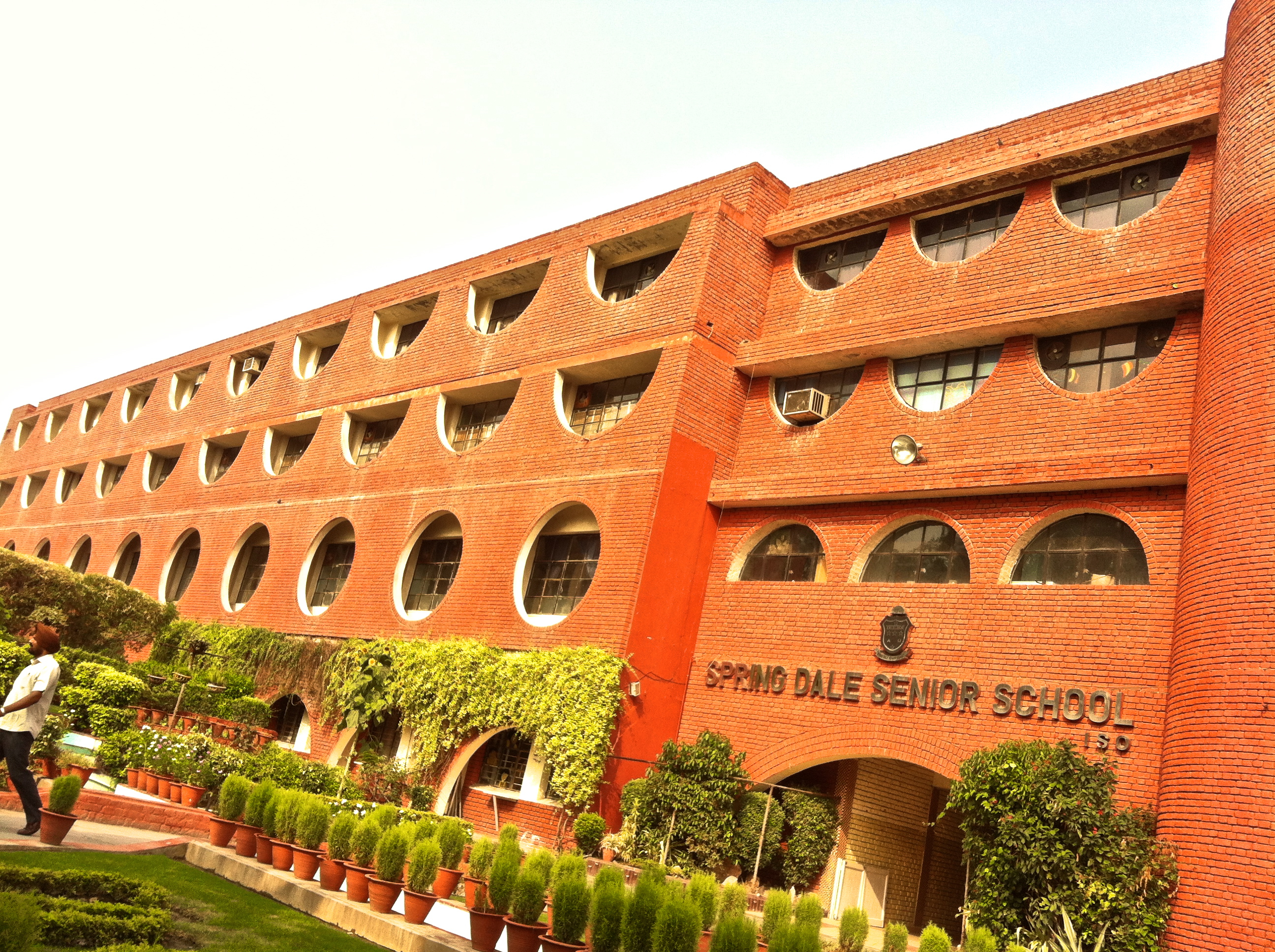 Participants of Punjabi Wikipedia Workshop at Amritsar on 17 Aug 2012.